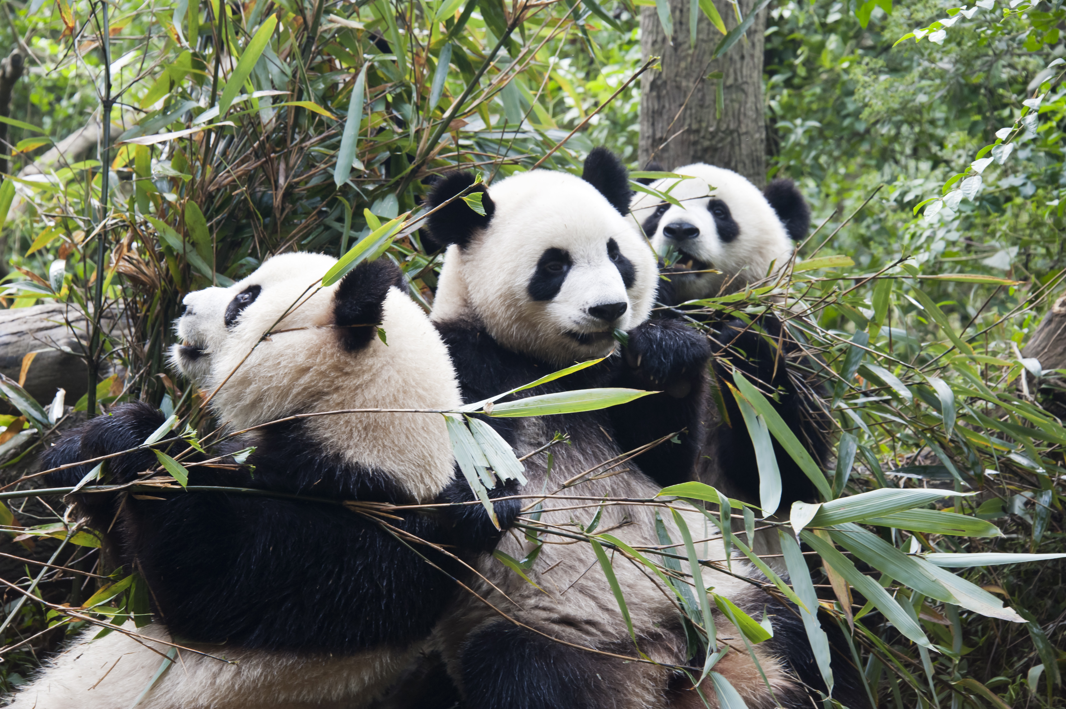 panda trio sichuan china autumn 2011 Chengdu Research Base of Giant Panda Breeding